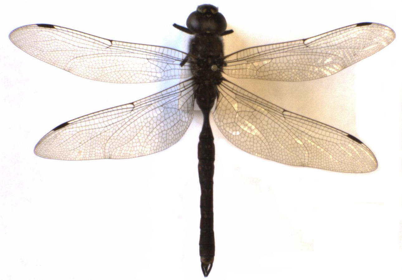 adult male Aeshna (Adversaeschna) brevistyla